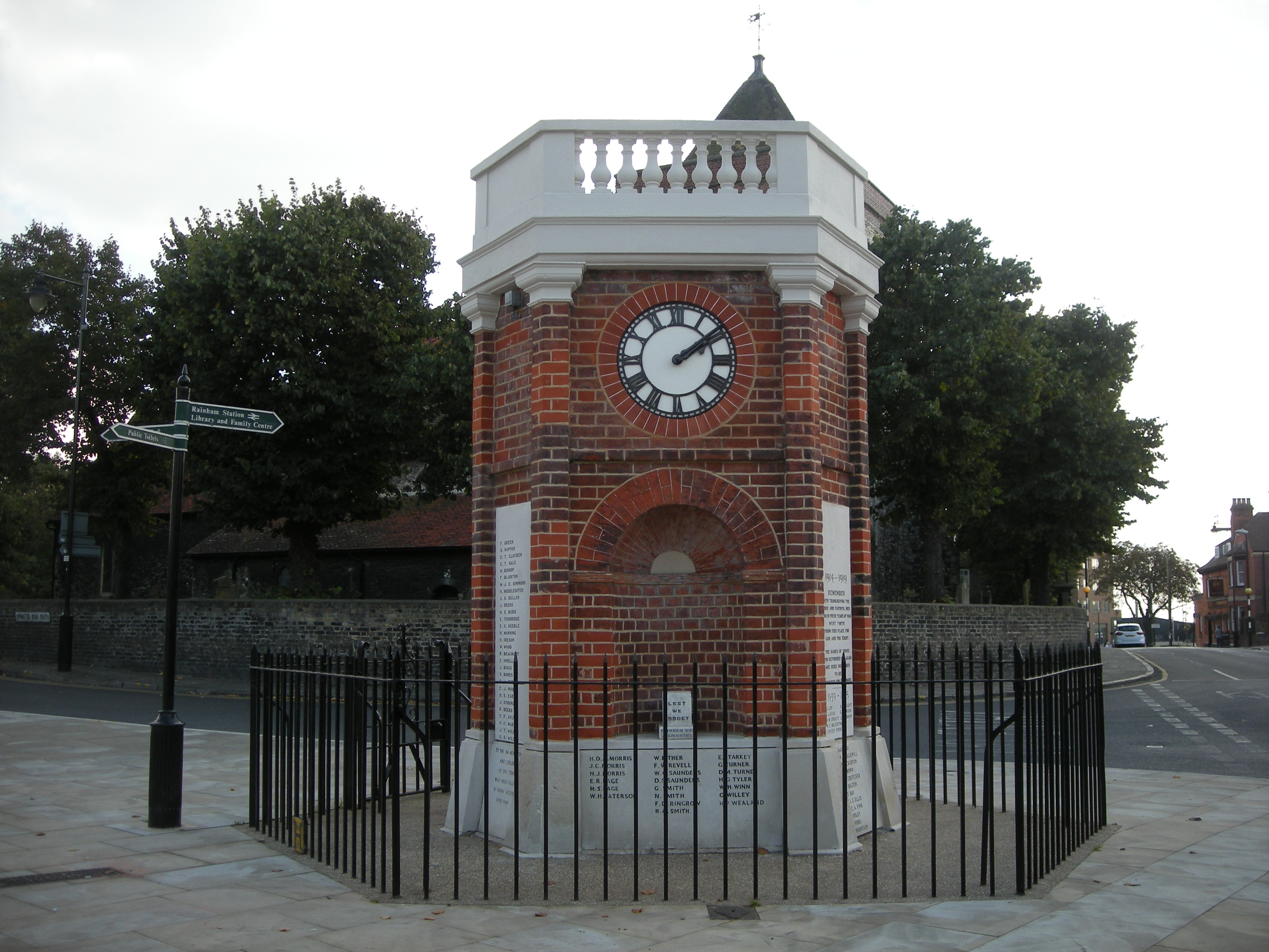 Rainham, Essex